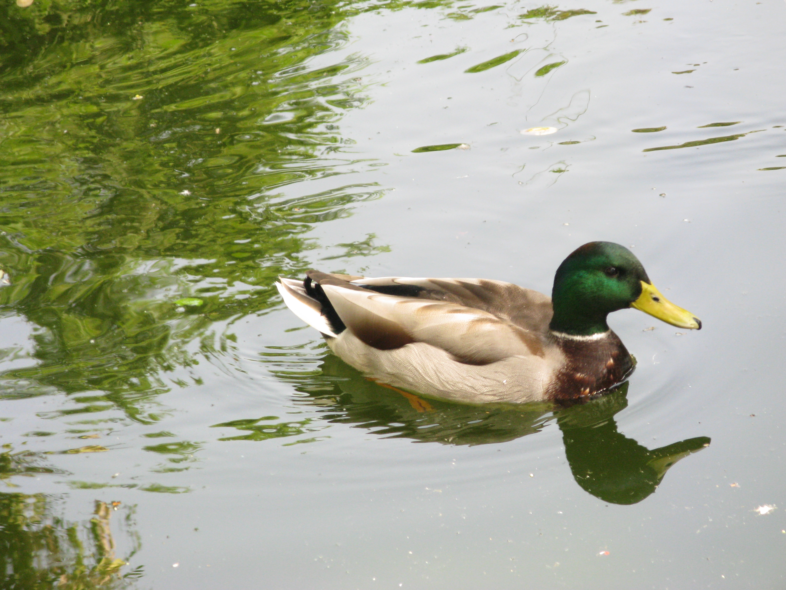 Mallard male. The Safari of Ramat-Gan, Israel